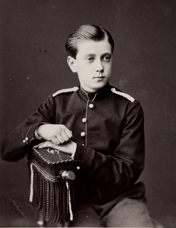 Grand Duke Paul Alexandrovich as a child